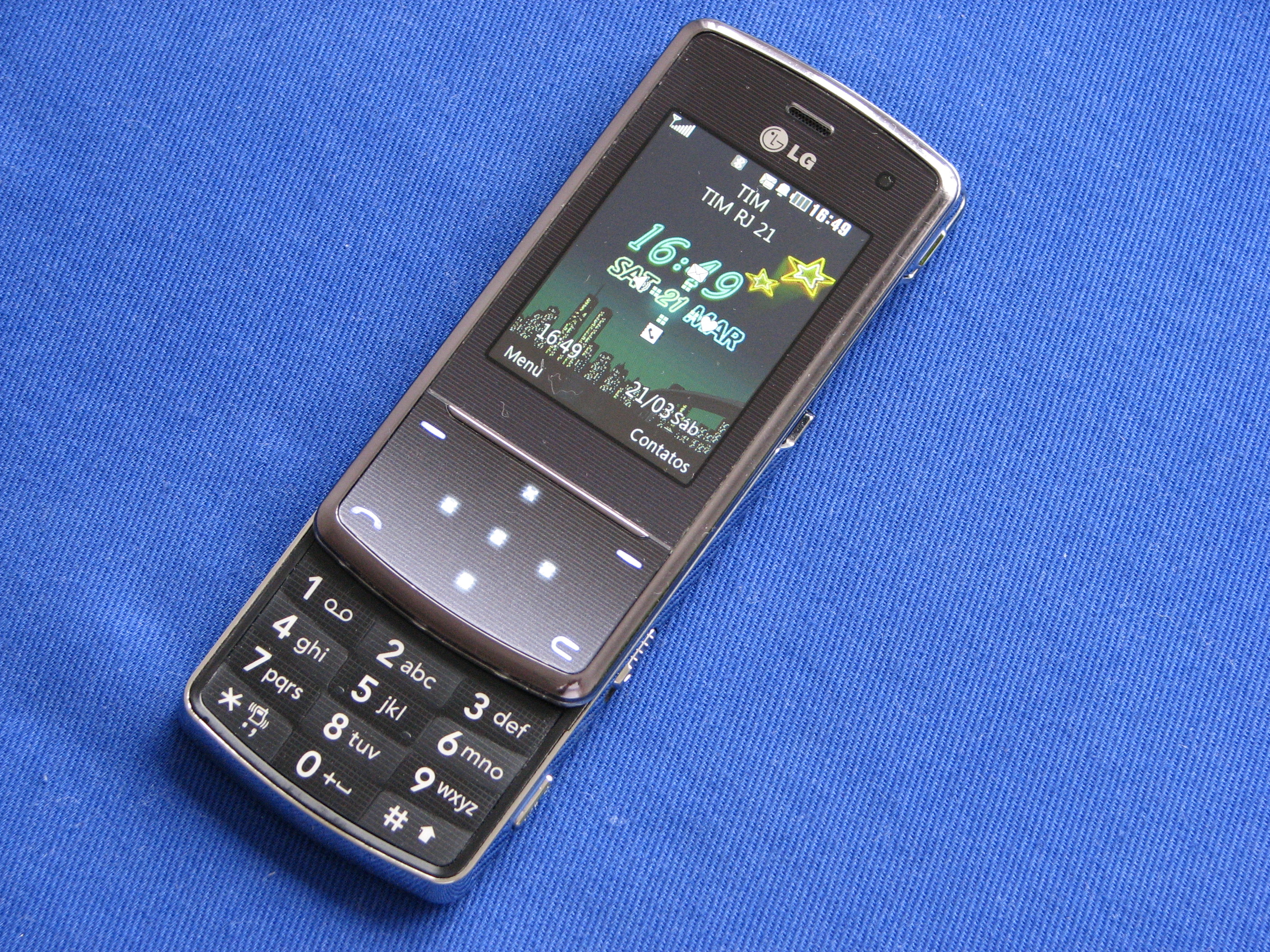 Picture taken by the uploader - LG KF510c mobile phone